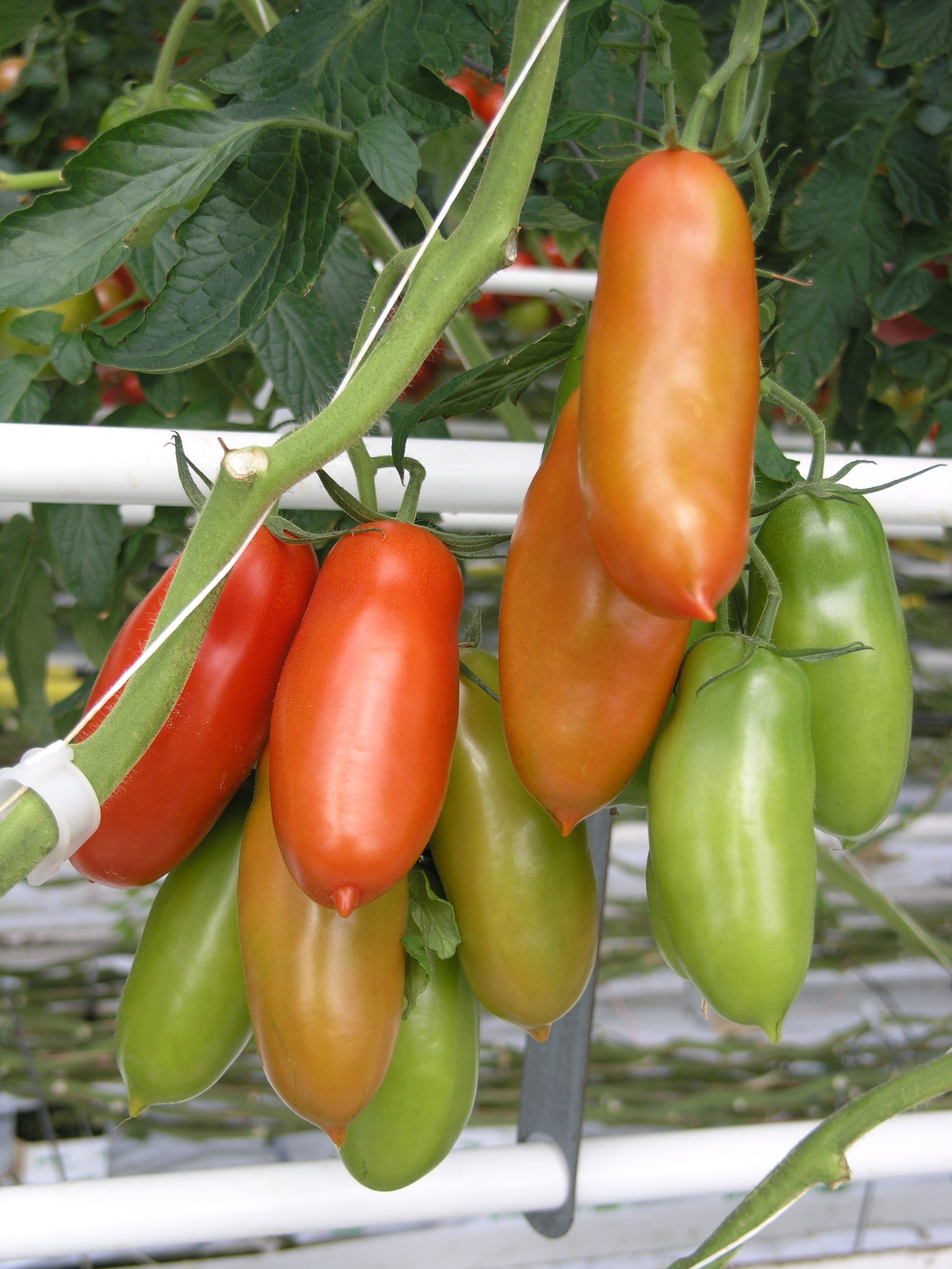 Tomatensorte Typ San Marzano